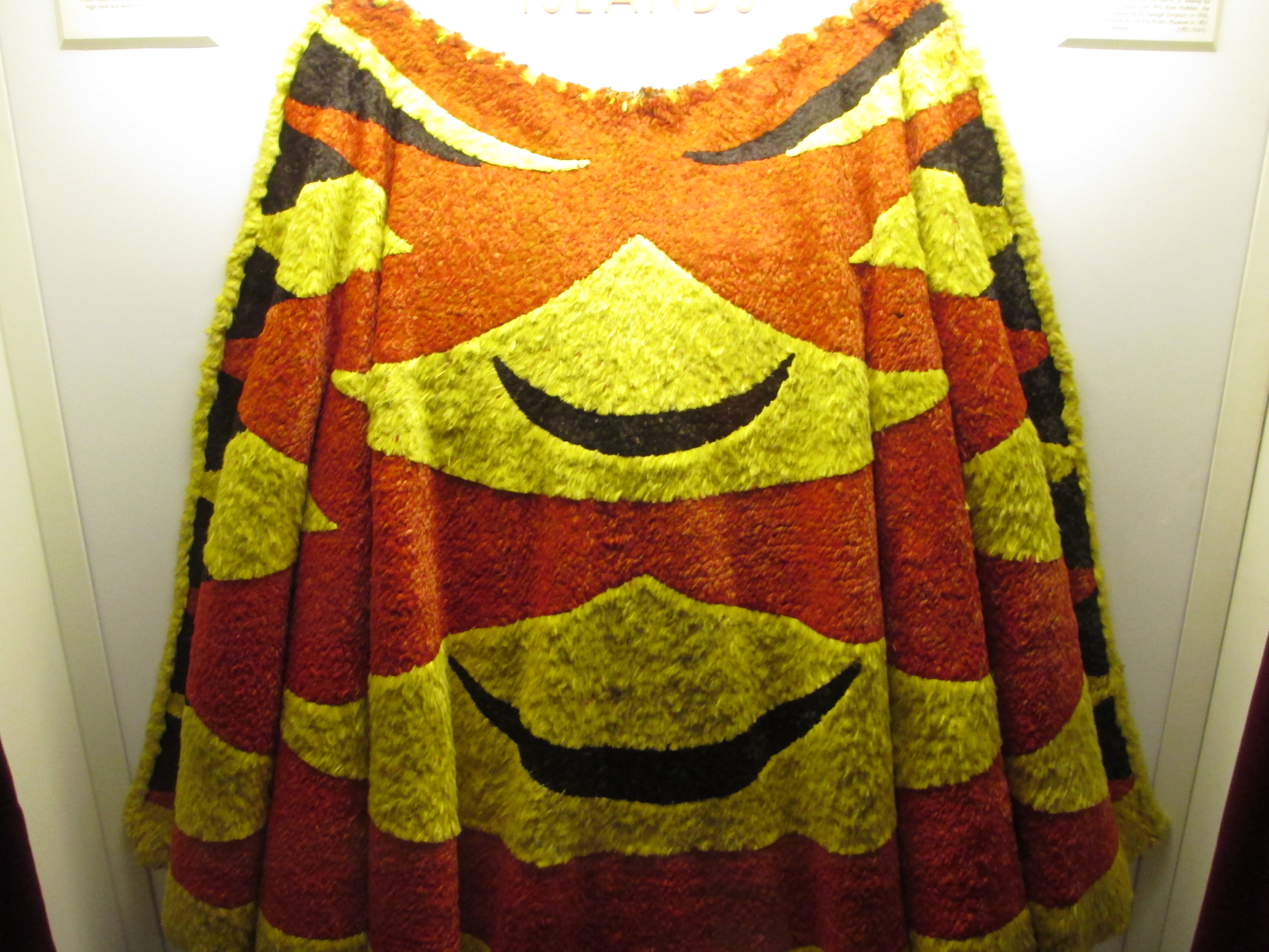 Hawaiian feather cloak (ʻahu ʻula) previously belonging to Princess Kekāuluohi Kaʻahumanu III. From the collection of the Pitt Rivers Museum, University of Oxford (accession number 1951.10.61). Materials: olonā fiber and feathers from the Hawaiʻi ʻōʻō and ʻiʻiwi